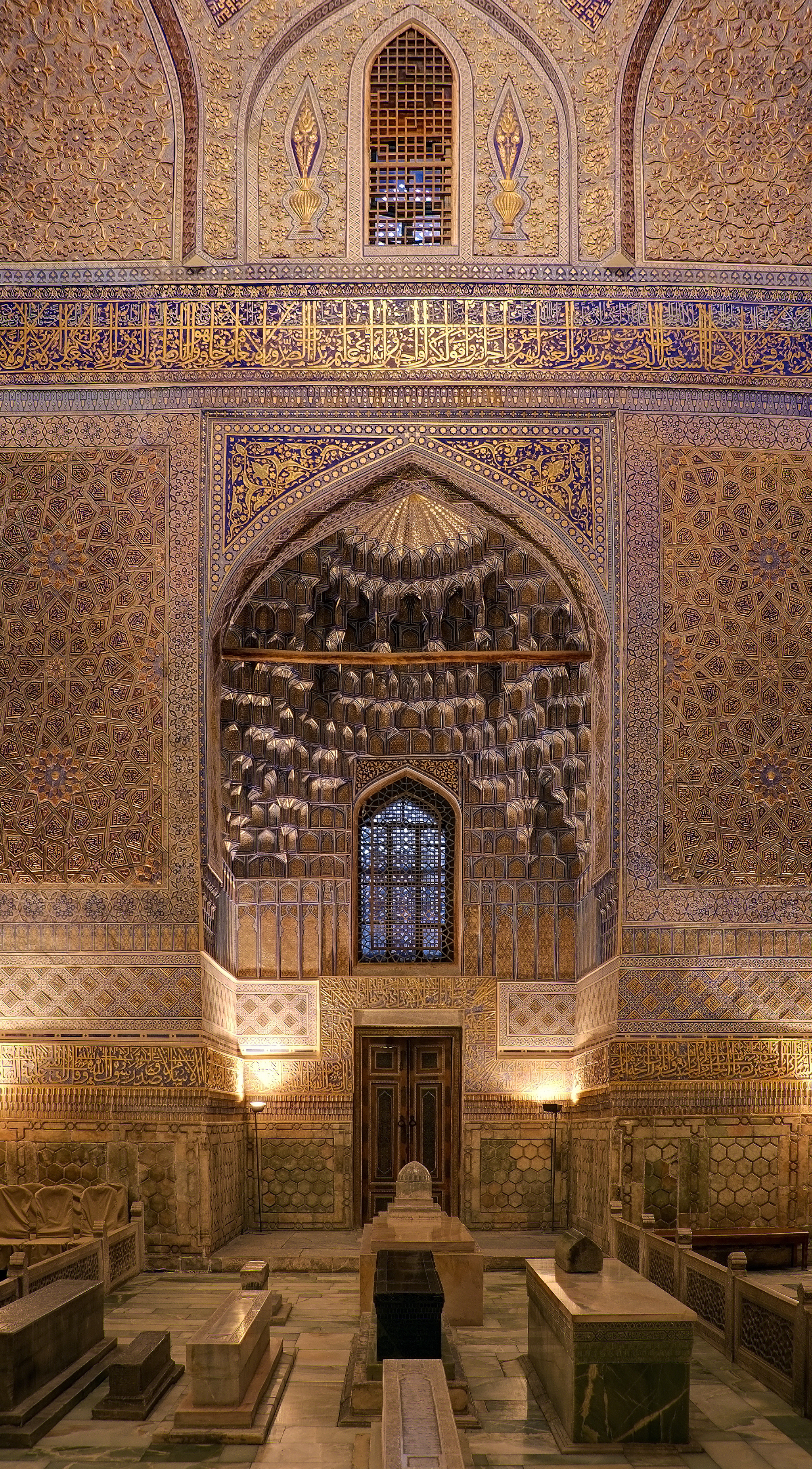 inside Gur-e Amir mausoleum in Samarkand/Uzbekistan - the black coffin in the middle contains the remains of Amir Timur (Tamerlane)